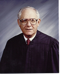 Photo of Judge Stanley Brotman of the United States District Court for the District of New Jersey.